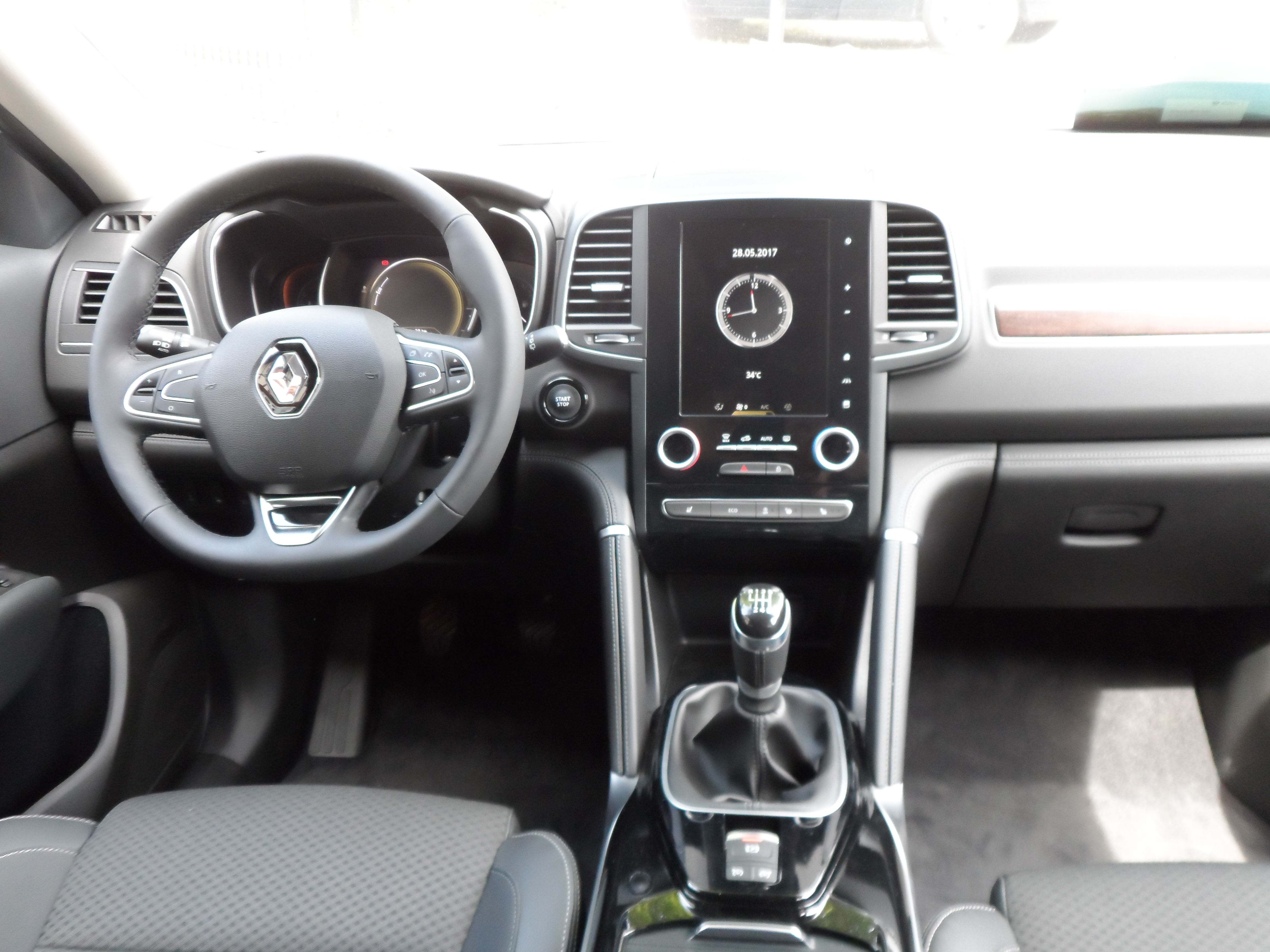 Dashboard of Renault Koleos II with R-Link 2